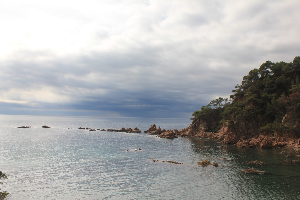 Esculls de Canyet